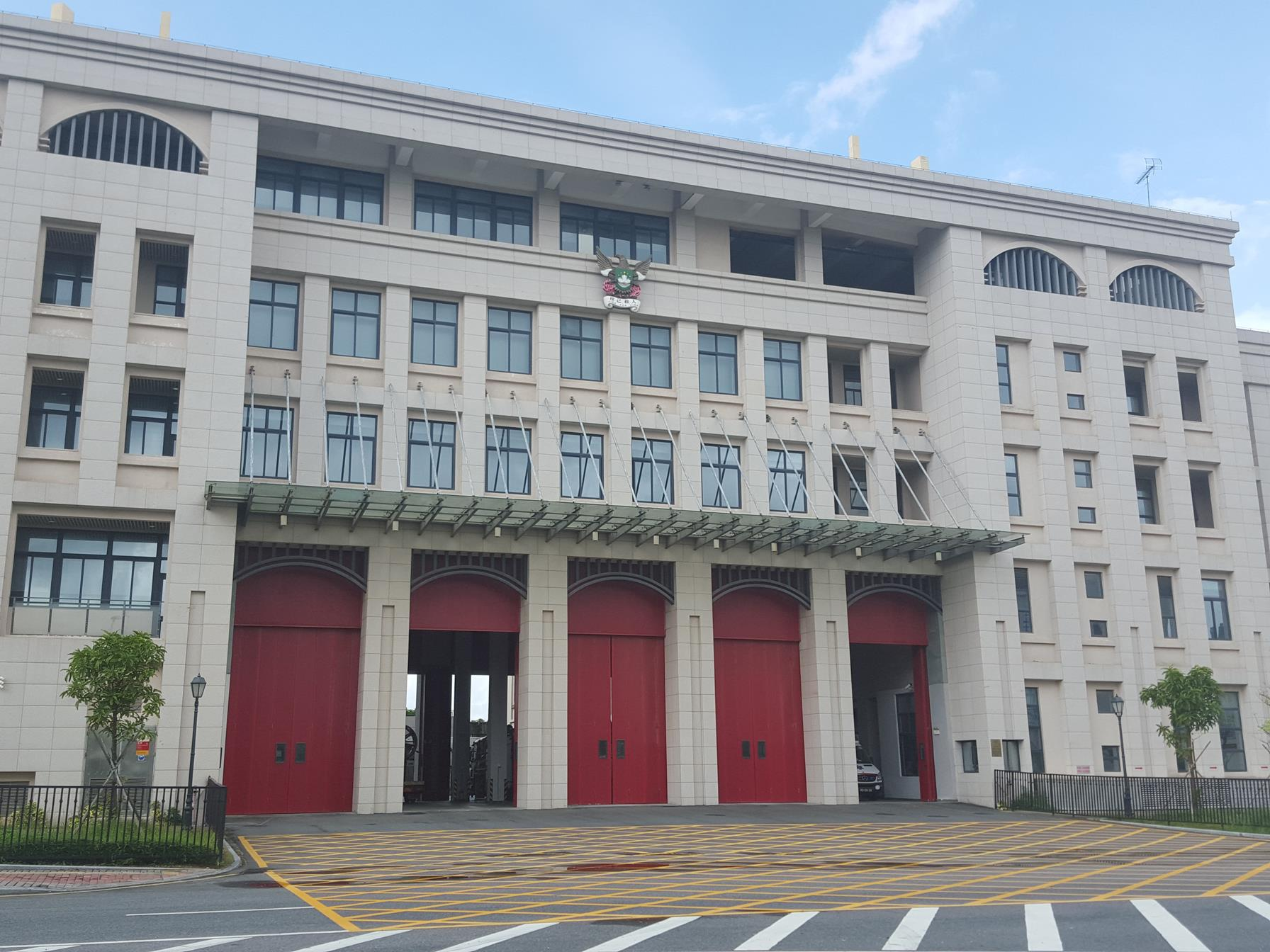 Fire department in UM Hengqin